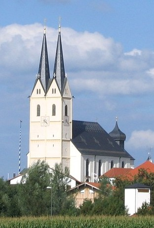 Tuntenhausen, view of Parish and Pilgrimage Church of the Assumption from south-west.